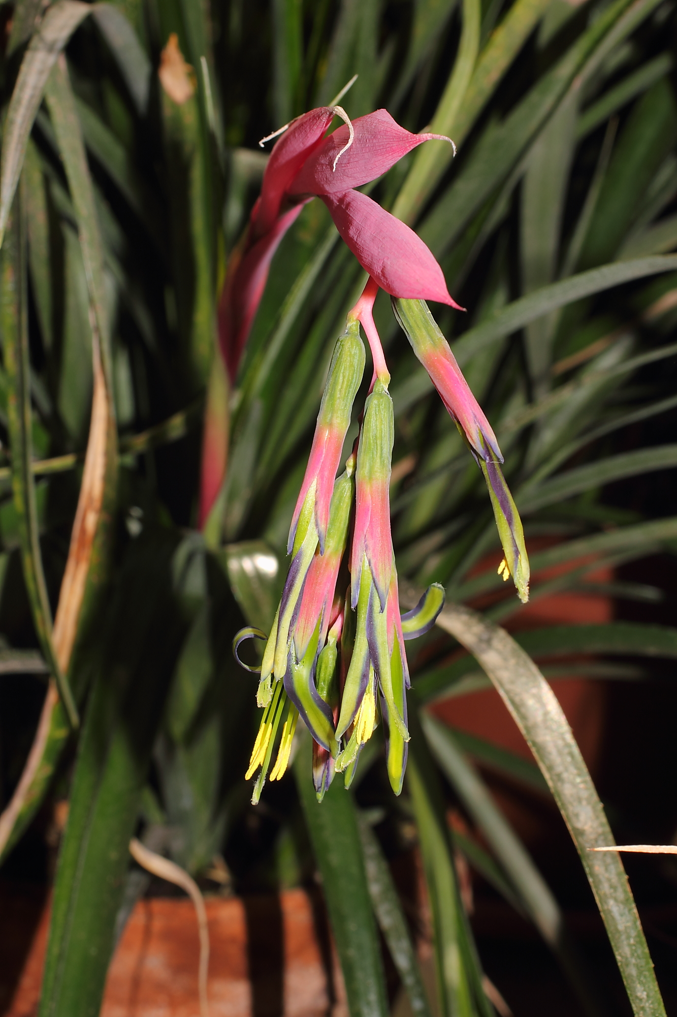 Inflorescence of Billbergia eloiseae in the botanical garden of Graz, Austria